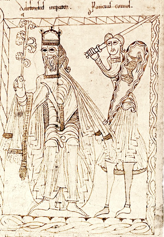 Privilegium Imperatoris